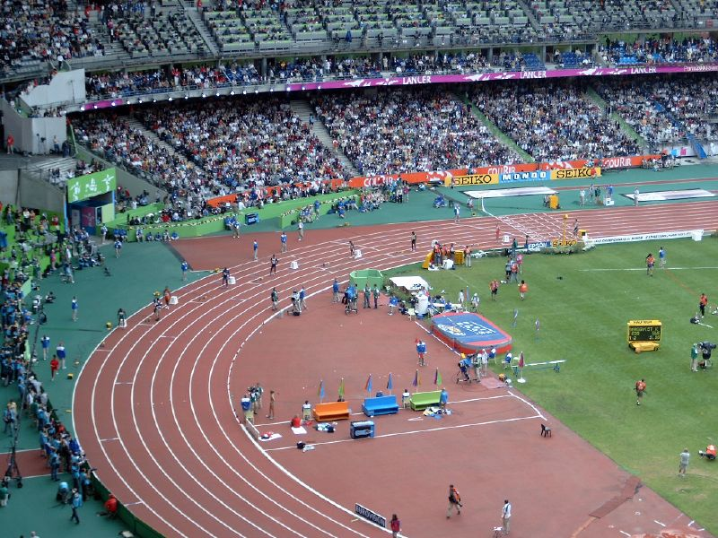 Our stay coincided the World Athletics Championships in the Stade de France